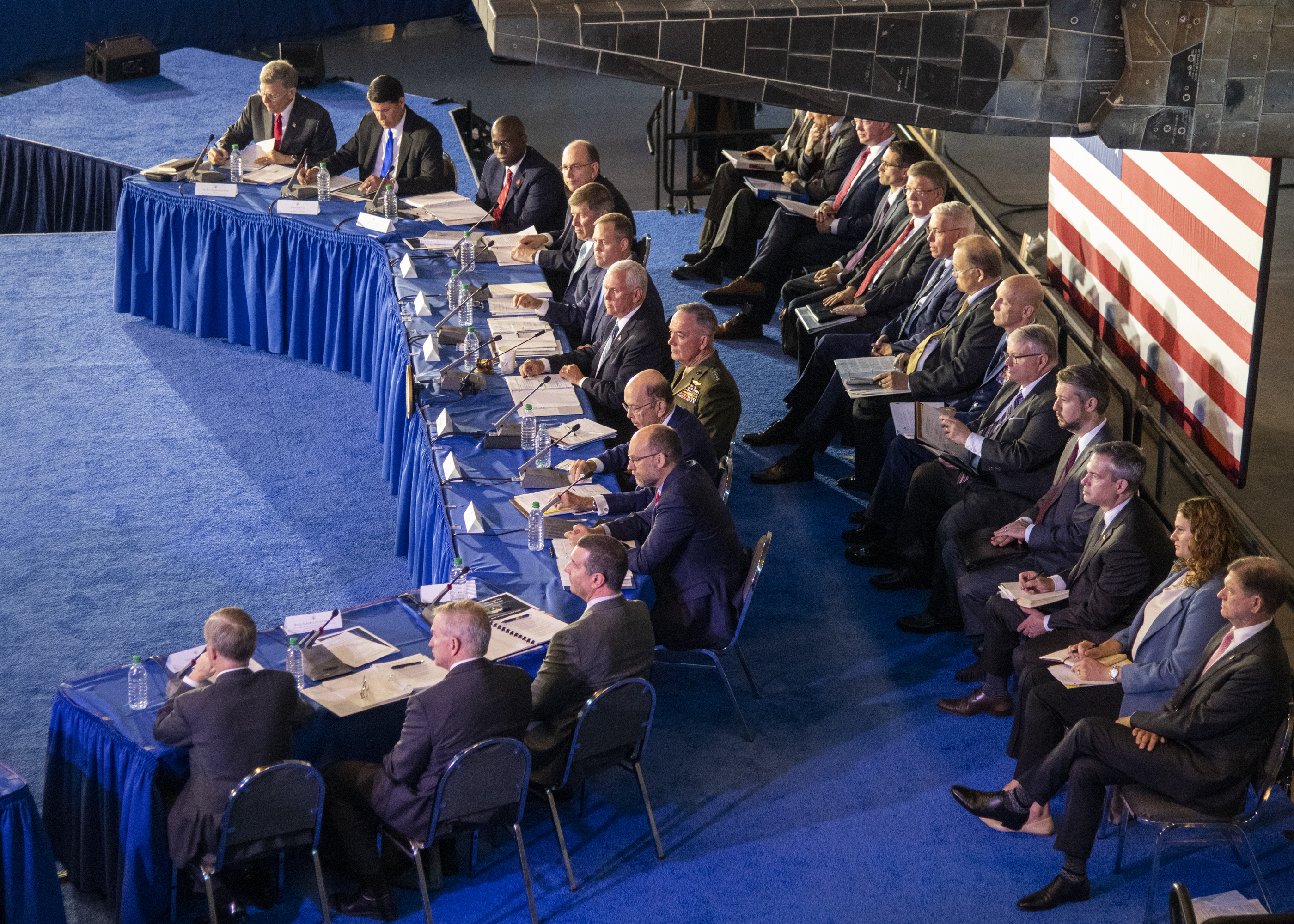 Vice President Mike Pence chairs the sixth meeting of the National Space Council, Tuesday, Aug. 20, 2019 at the Smithsonian National Air and Space Museum's Steven F. Udvar-Hazy Center in Chantilly, Va. Chaired by the Vice President, the council's role is to advise the President regarding national space policy and strategy, and review the nation's long-range goals for space activities. (DOD photo by U.S. Navy Petty Officer 1st Class Dominique A. Pineiro)